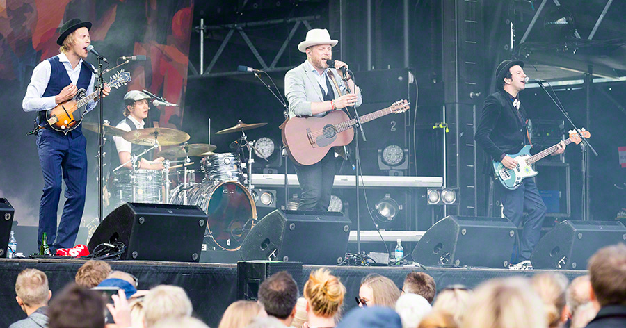 Violet Road at the minor stage during Stavernfestivalen in Stavern on 07. July 2016. Lineup:Kjetil Holmstad-Solberg (vocal)Herman Rundberg (Unknown instrument)Halvard Rundberg (Unknown instrument)Hogne Rundberg (bass)Håkon Rundberg (Unknown instrument)